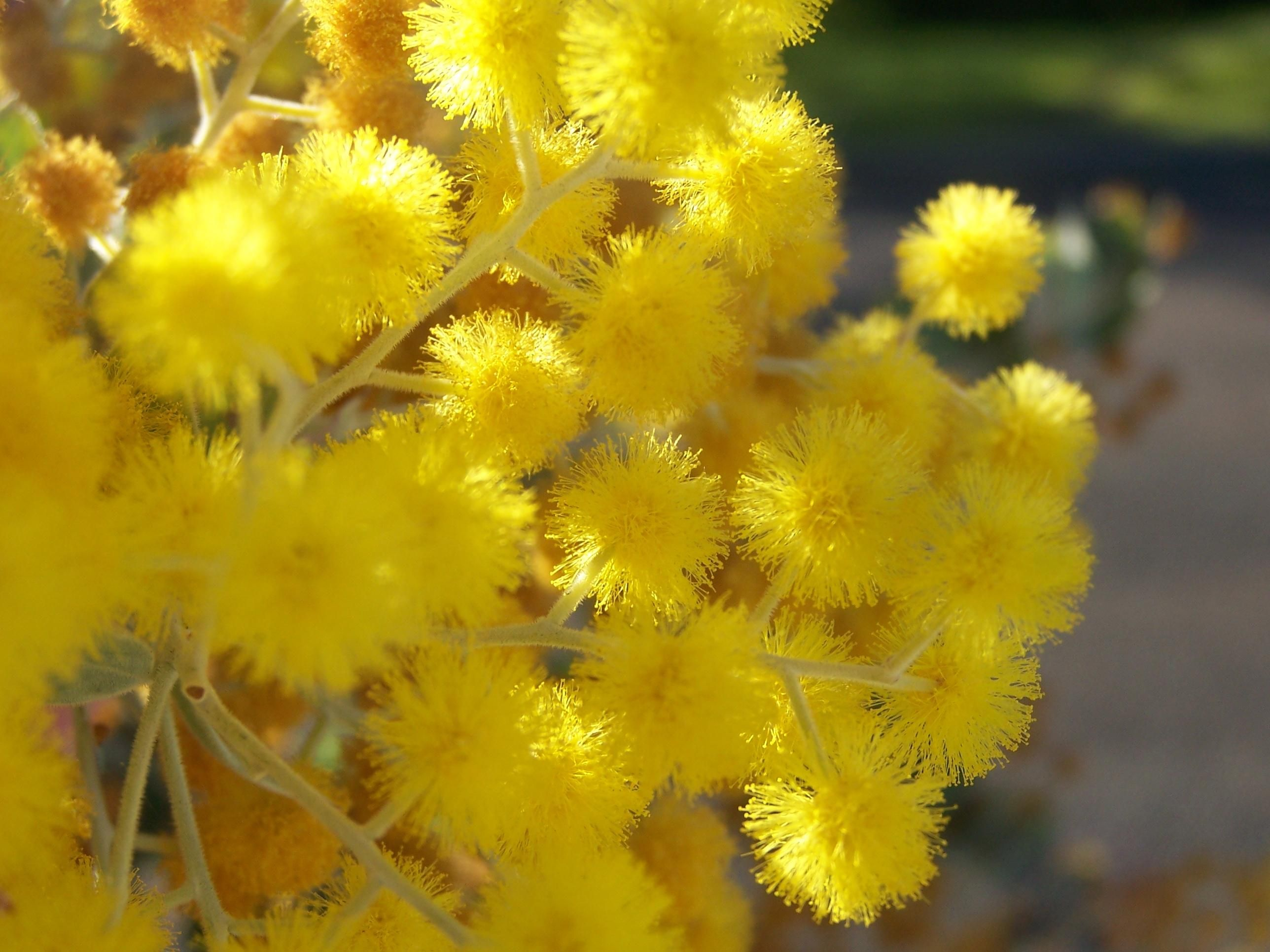 Image title: Golden wattle up close Image from Public domain images website